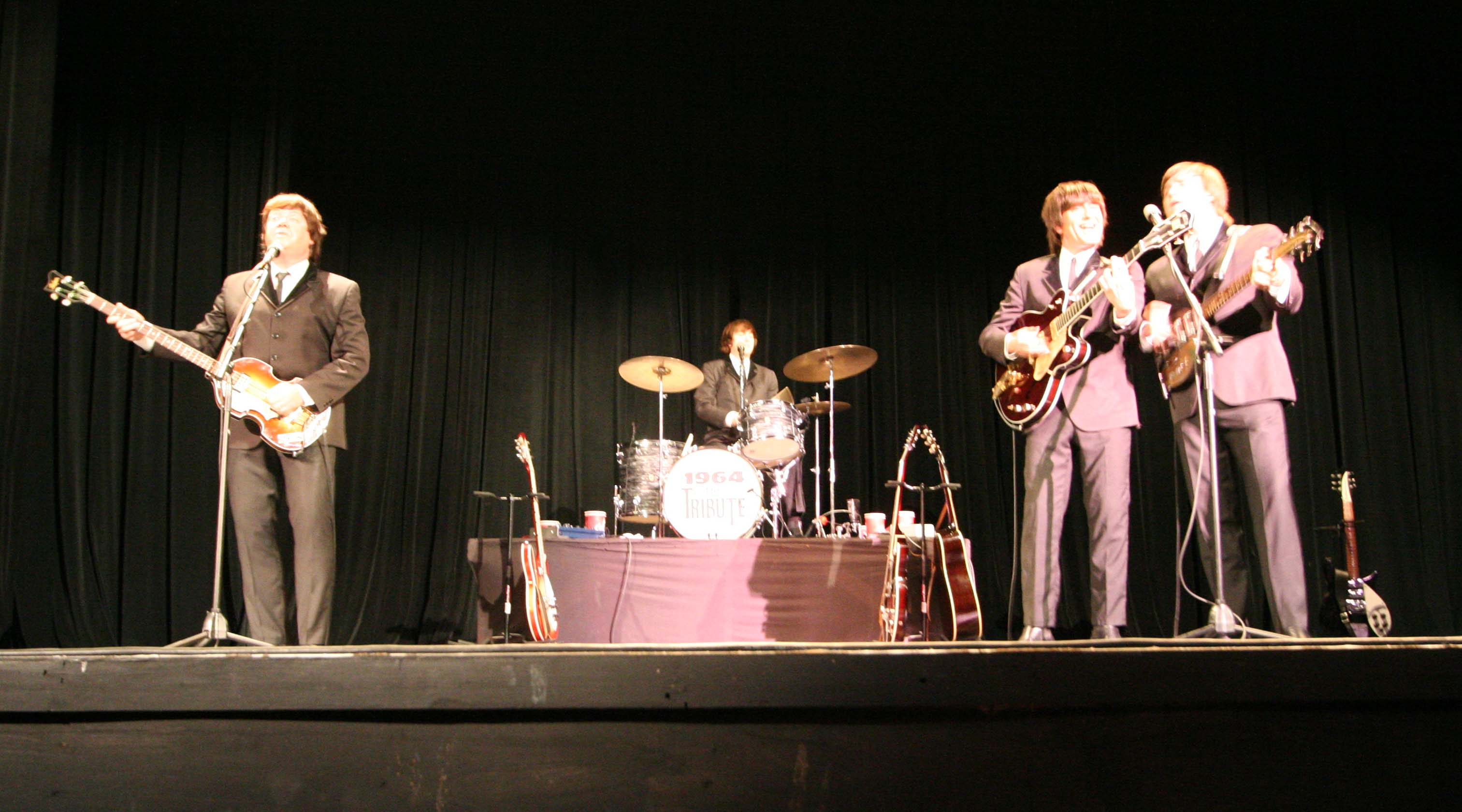 "1964 - The Tribute" (a Beatles tribute bandd) appear at the Poncan Theatre in Ponca City, Oklahoma on June 6, 2008. All use of this photo must include and attribution and photo credit to Hugh Pickens and, if used on the web, must include a link to the web site of Hugh Pickens.